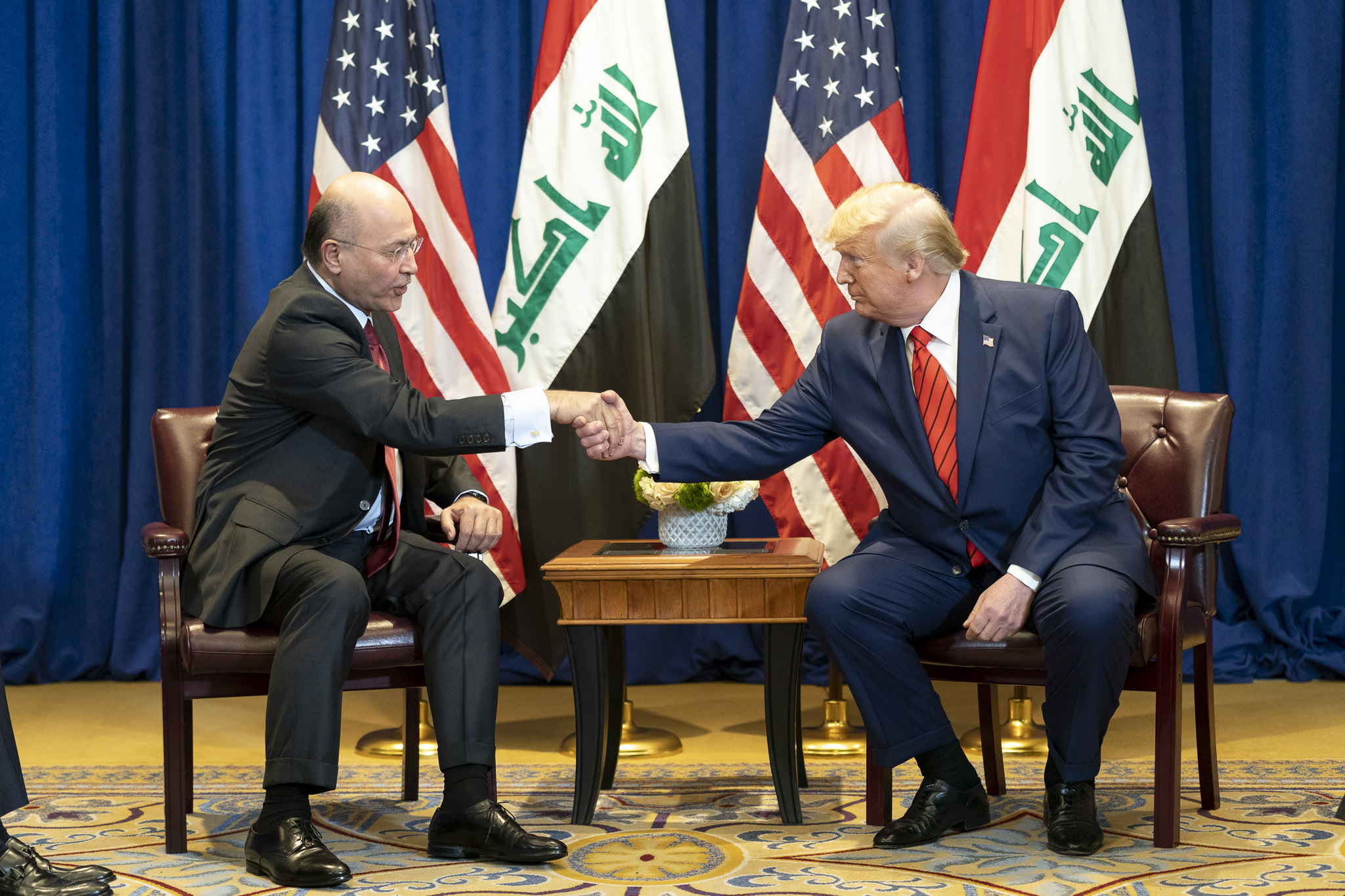 President Donald J. Trump participates in a bilateral meeting with Iraqi President Barham Salih Tuesday, September 24, 2019, at the Lotte New York Palace in New York City. (Official White House Photo by Shealah Craighead)